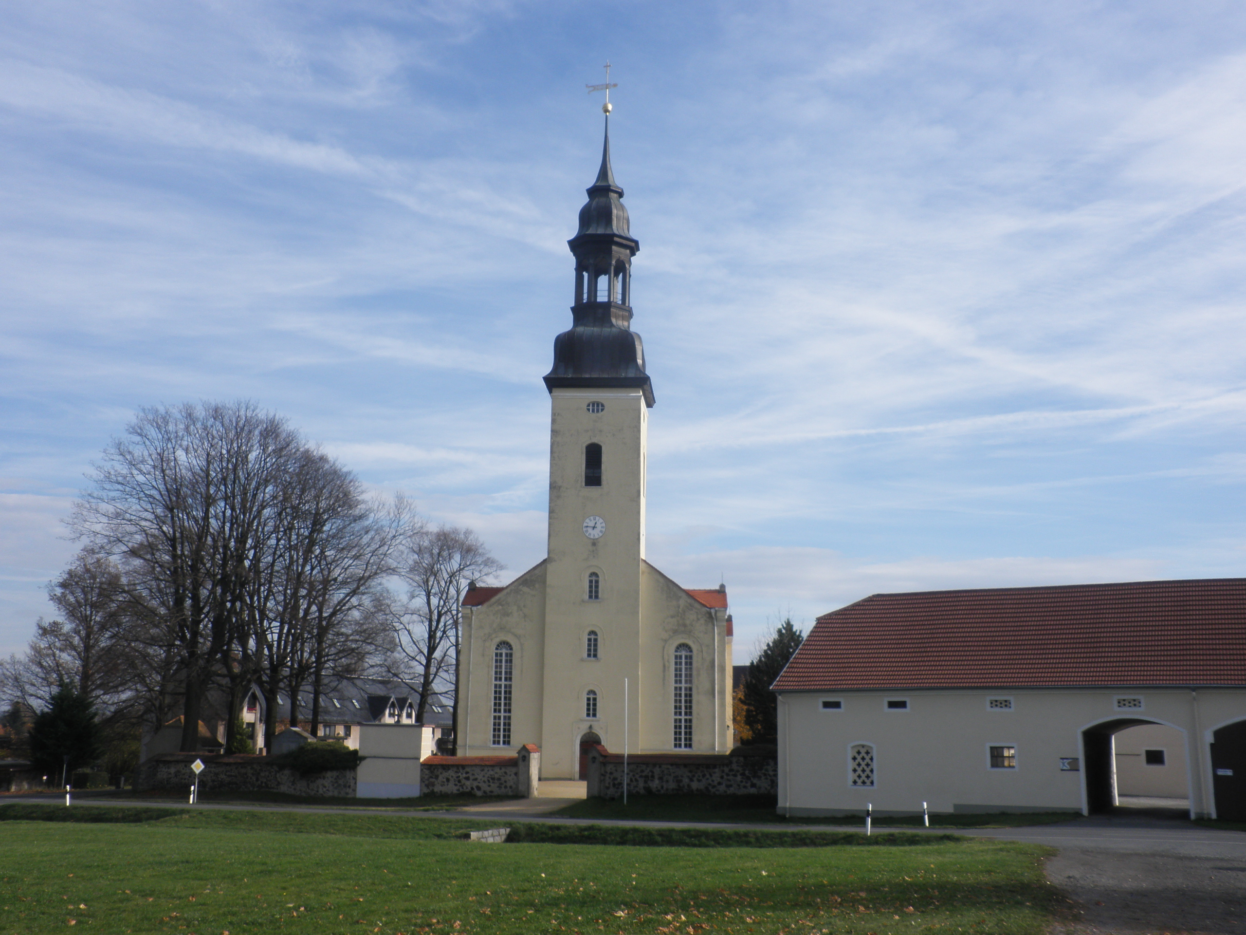 Großhennersdorf, Lutheran church built in 1870